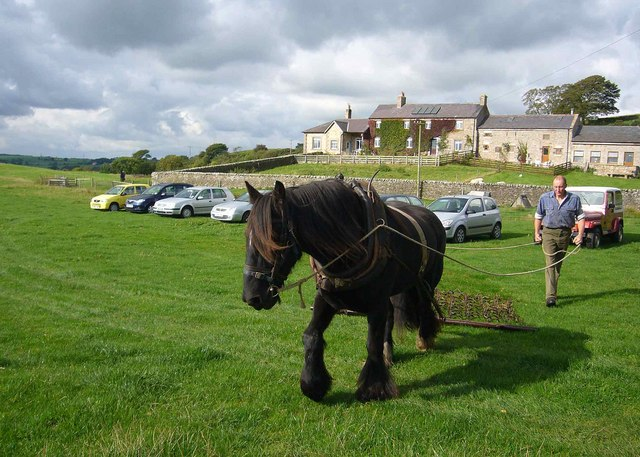 The Working Dales Pony Centre, Clarks Hill Farm The Centre breeds Dales ponies and still uses them for 'Snigging',(The extraction of timber from difficult forest locations).